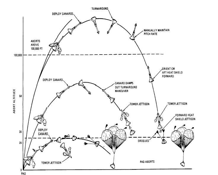 How Launch Escape Subsystem operates at different altitudes